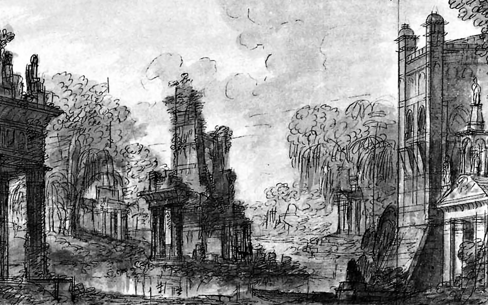 Francesco Bagnara's stage set (1827) for Giacomo Meyerbeer's Il crociato in Egitto (Act II, Scene 3)